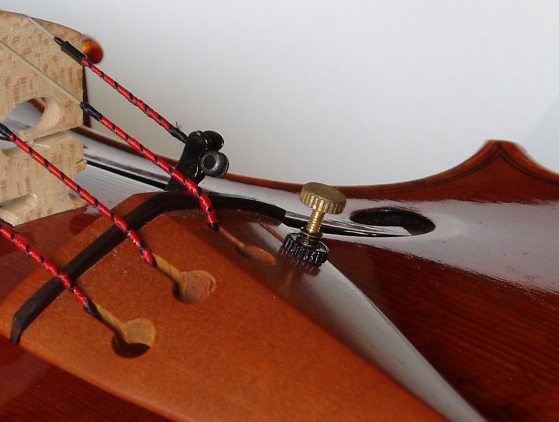 a fine tuner on A string